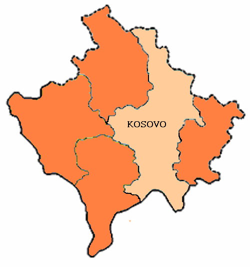 Kosovo District